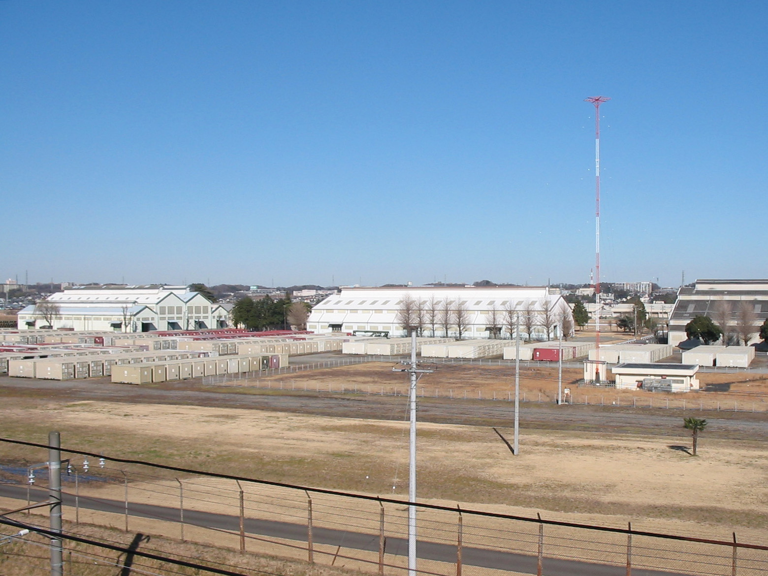 Aeronautical radio navigation aid "ZamaNDB" at U.S.Army Sagami General Depot. This picture was taken before Off-the-air and scrap ZamaNDB. Sagamihara city,Kanagawa pref,Japan January,14,2009